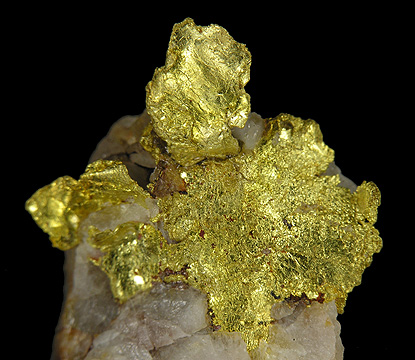 Gold Locality: Mendota Tunnel, Telluride District, San Miguel County, Colorado, USA (Locality at ) Size: 3.5 x 1.7 x 1.4 cm. This is a very aesthetic piece featuring a predominant, bright "leaf" of Gold sitting atop Quartz matrix. This specimen came to Brian Kosnar from the Leigh Price collection which he purchased it in 2002. The story of this piece came from Brian and his family directly from Leigh after he obtained the specimen. Originally this piece was purchased by mineral collector George Robertson from a dentist in Telluride in the late 1970s. From 1933 until the end of 1974, private citizens in the United States were not allowed to own Gold, but there was an exception for dentists since they require Gold for fillings, crowns, etc. The dentist who owned this specimen would often acquire Gold from the local miners around Telluride since it was more directly available. Obviously he was not interested in using it for dental work as he had a few specimens of Gold in a small private collection. After George Robertson acquired the piece he sold it to Leigh Price sometime in the 1980s. There is a small black and white photocopy of the original label which accompanies the specimen. The reverse side of the piece indicates that the main "leaf" on this specimen has been reinforced in order to stabilize it. Overall, this is an historic and rarely seen Gold specimen from a hard to find locality in the famous San Juan Mountains.